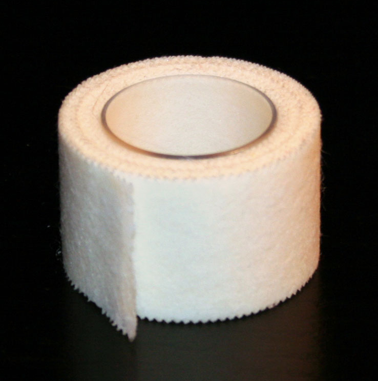 Albupore surgical tape. Taken by Enoch Lau on 22 July 2006. As a courtesy, please let me know if you alter this image or this image description page. Original filename was IMG_0346.JPG.